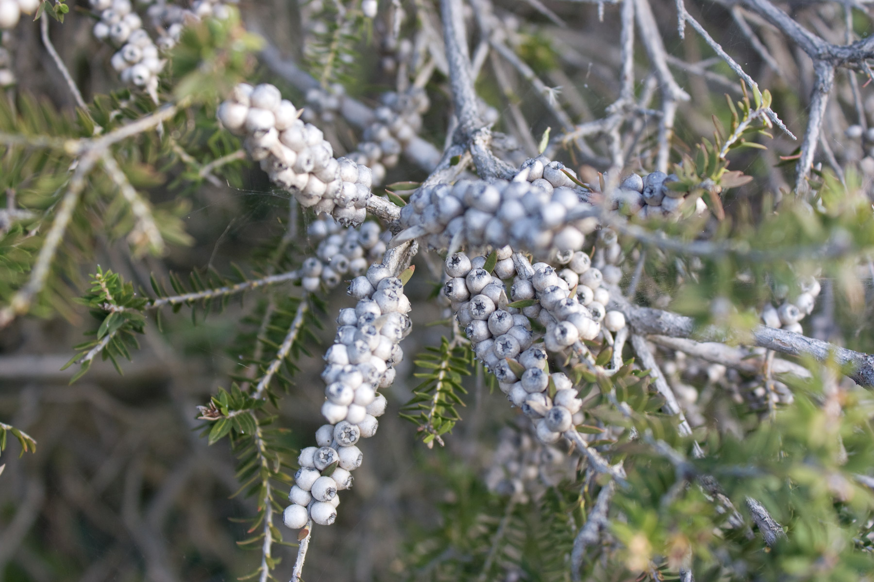 Coastal Moonah Woodland occurs on the swales, lower slopes and upper south-facing slopes of coastal dune systems that are alkaline and usually derived from calcarenite. Coastal Moonah Woodland varies structurally and may occur as low forest or shrubland. Much of Coastal Moonah Woodland has been cleared or fragmented, leaving remnants that have been degraded by weed invasion and recreational activities. Currently it covers less than 10% of its original distribution in Victoria. (Source: DSE)